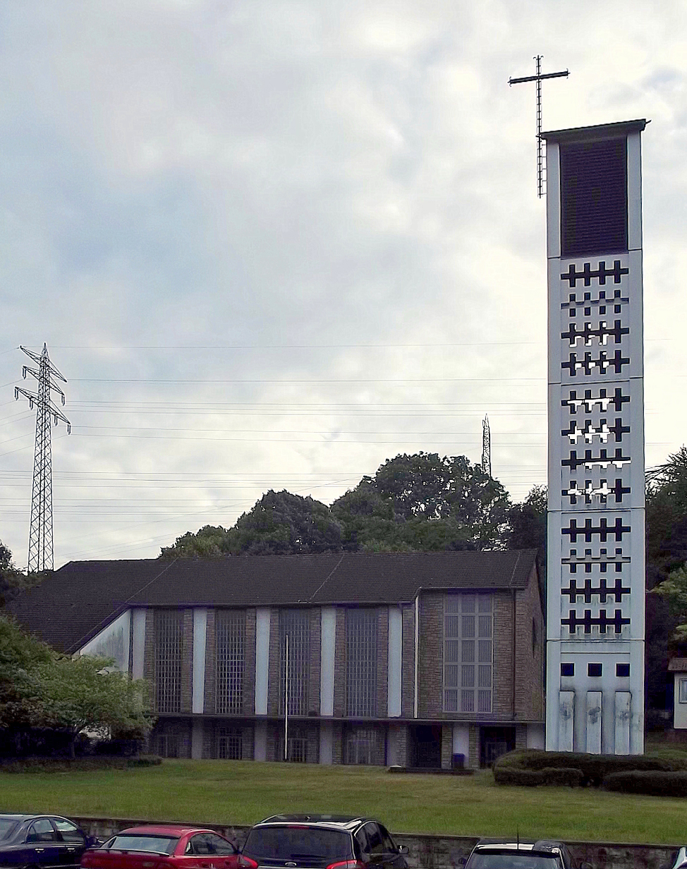 Exterior of the protestant church in Wehrden, Saarland, Germany